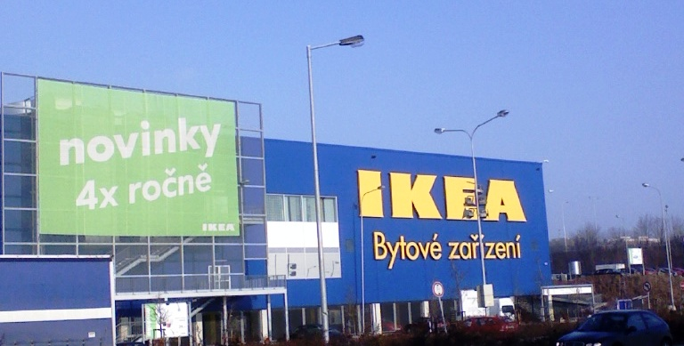 Ikea in Prague - Cerny Most, The Czech Republic